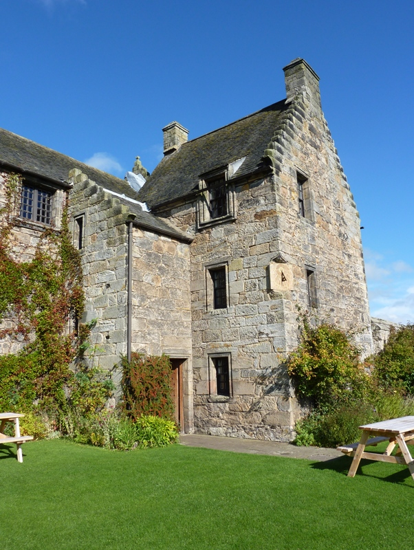 Aberdour Castle, Fife, Scotland. East wing, from the south. With sundial.